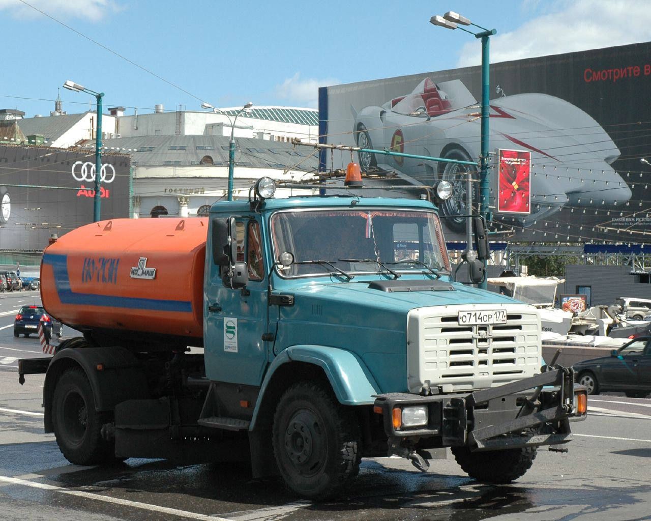 ZiL truck in Moscow